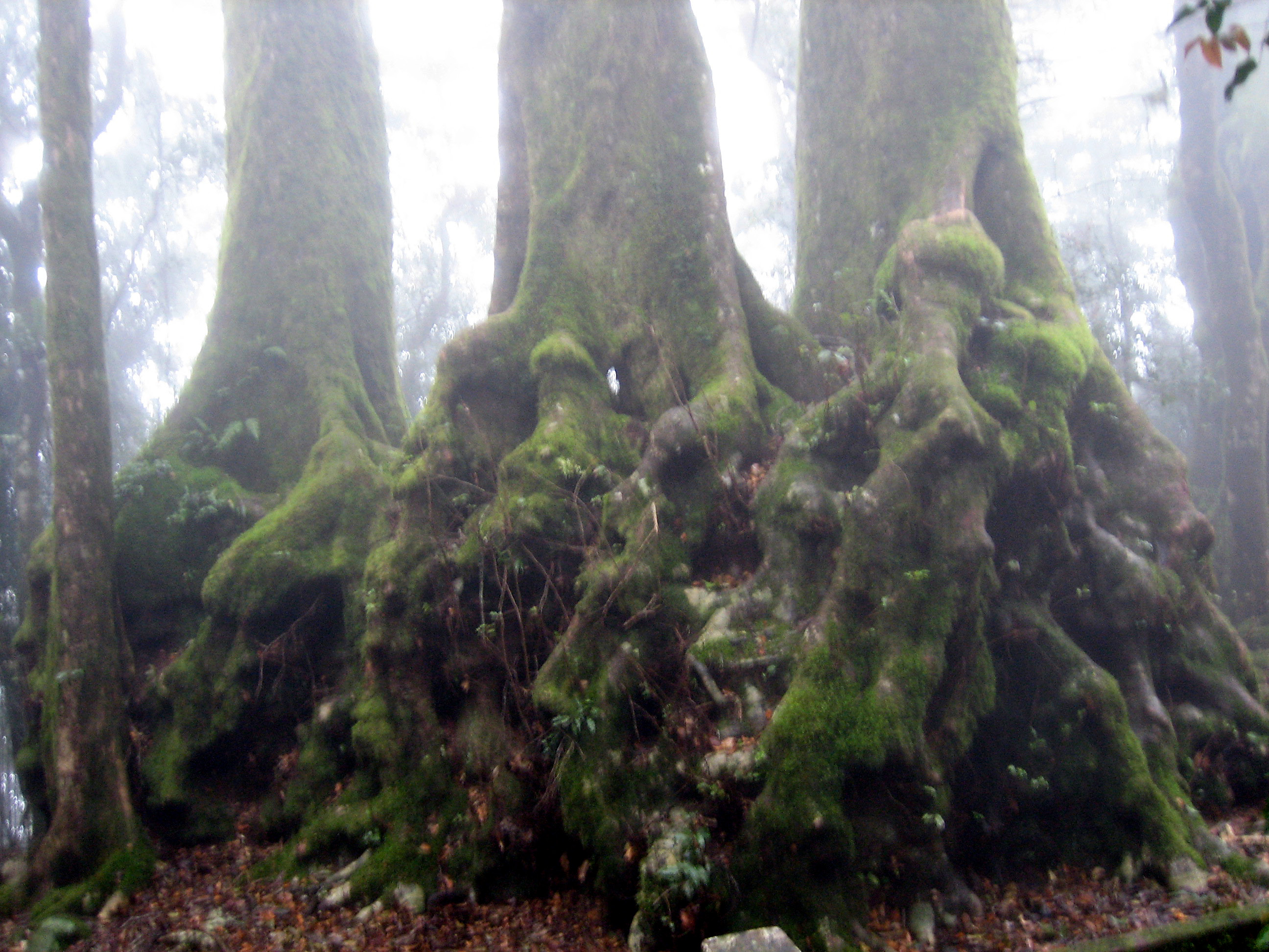 Photo taken by me (David) in Numinbah Nature Reserve, NSW, Australia. Very close to the state border, but on the southern side in New South Wales